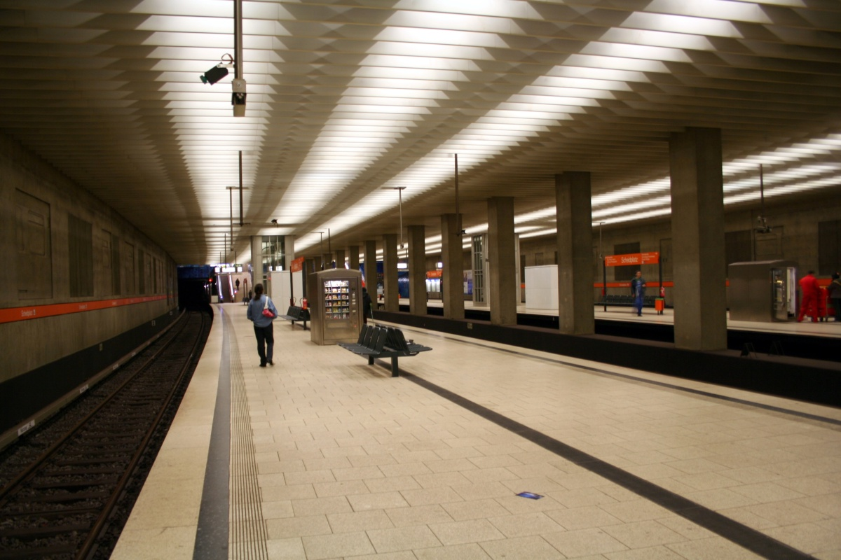 Munich subway station Scheidplatz